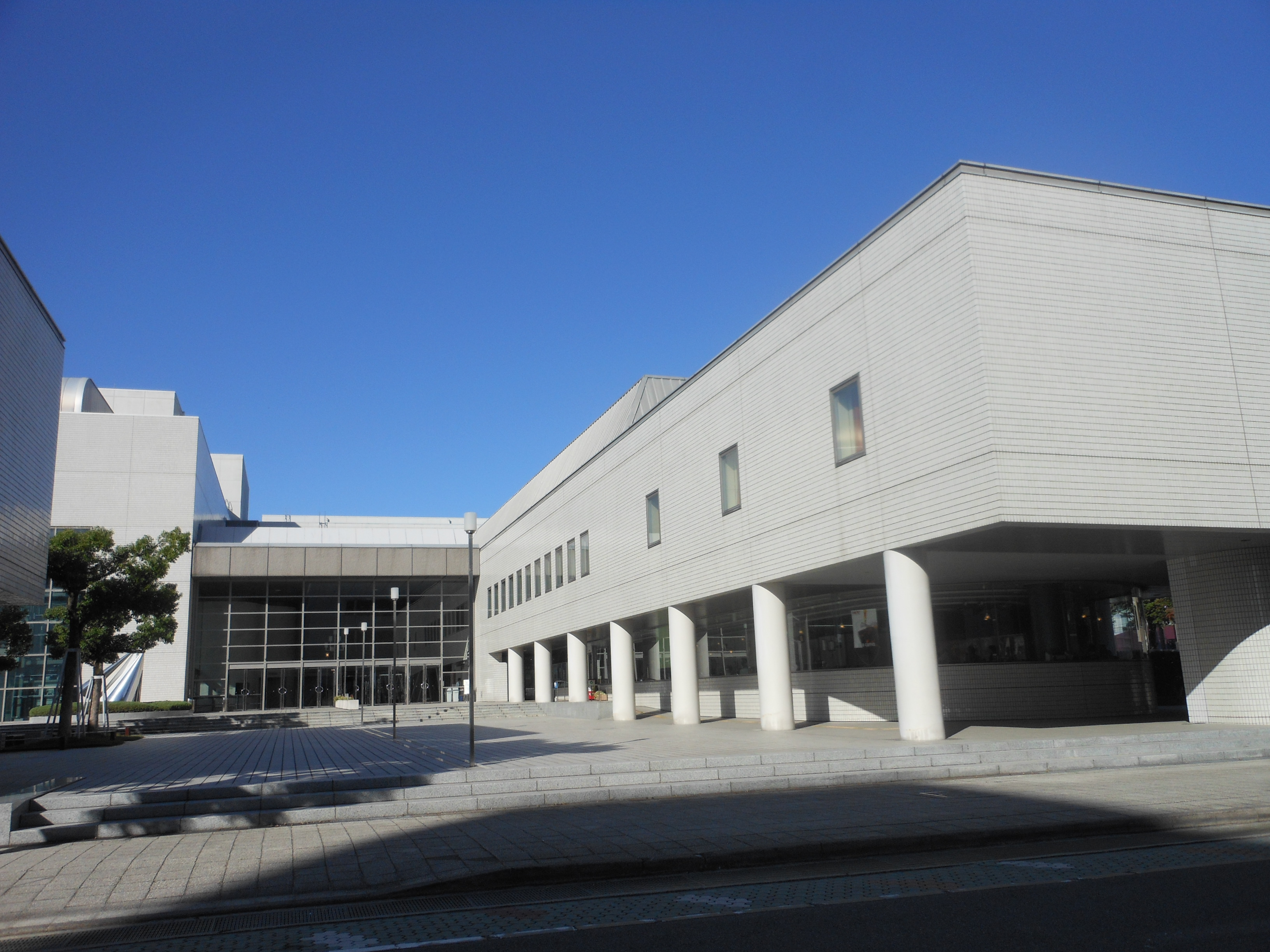 This is the Yokkaichi City Culture Hall, which is in Yokkaichi, Mie, Japan.